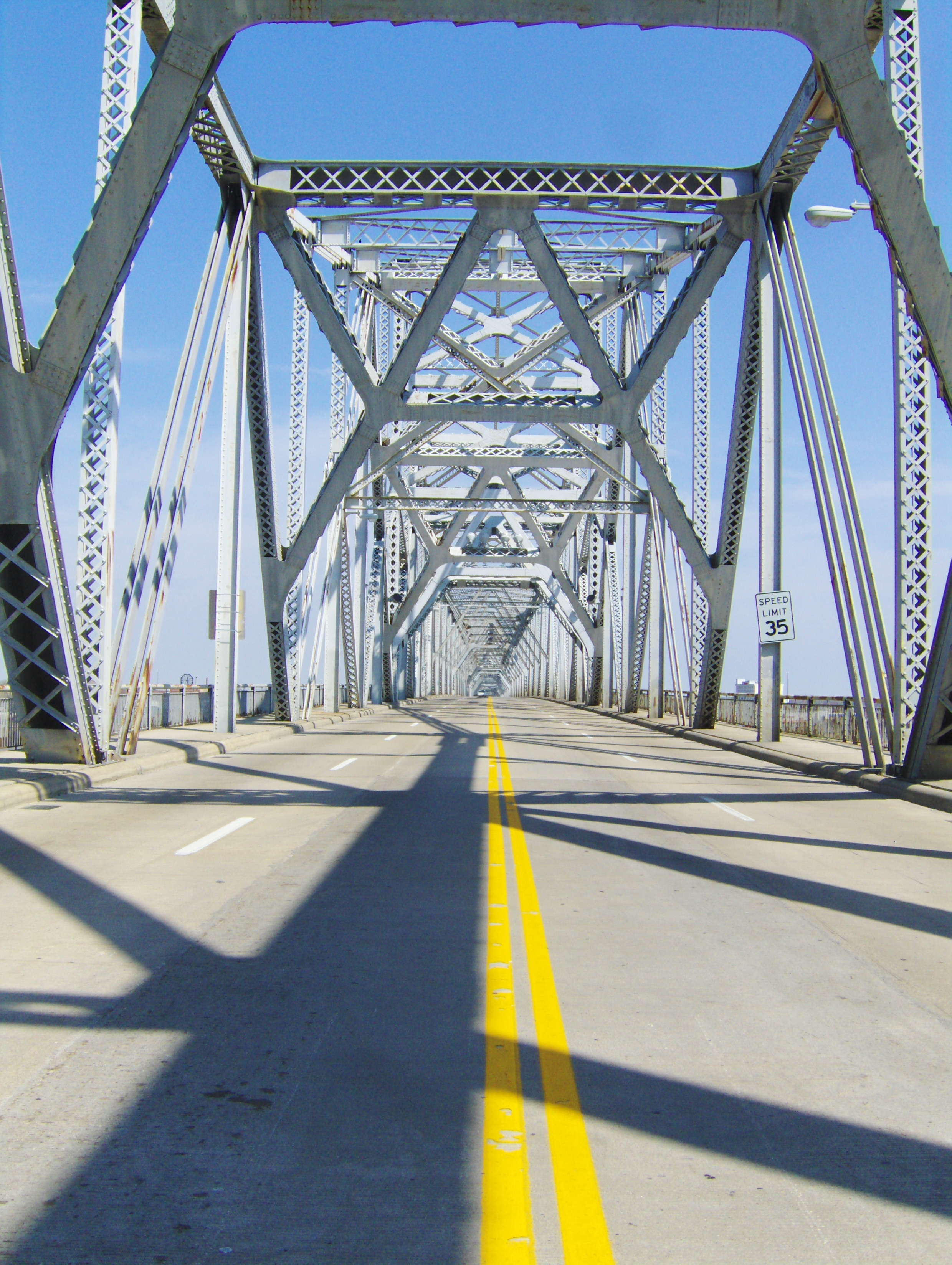 The George Rogers Clark Memorial Bridge crosses the Ohio River between Louisville (Kentucky) and Jeffersonville (Indiana)